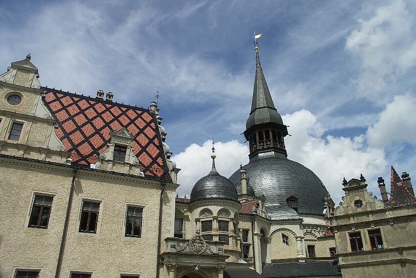 Schoenfeld Castle, Saxony, Germany